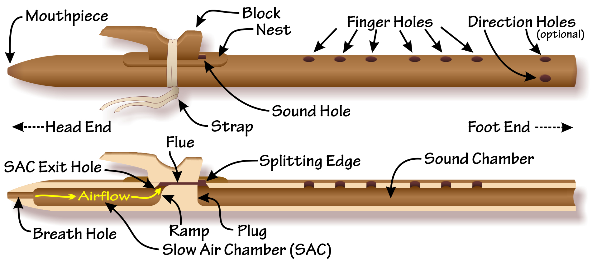 Depiction of the outside and cutaway of the inside design of a Native American flute, with labels for the major components.